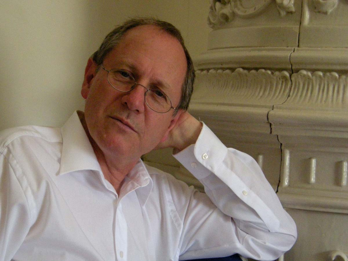 DI Dr. Reinhard Posch, Austrian mathematician and computer scientist.